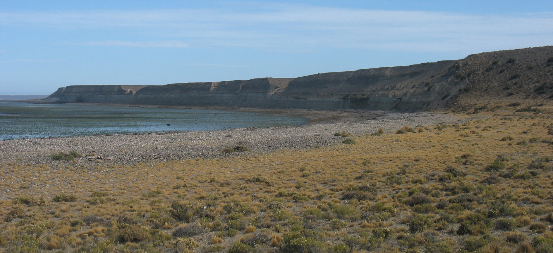 South view from Punta Guanaco.